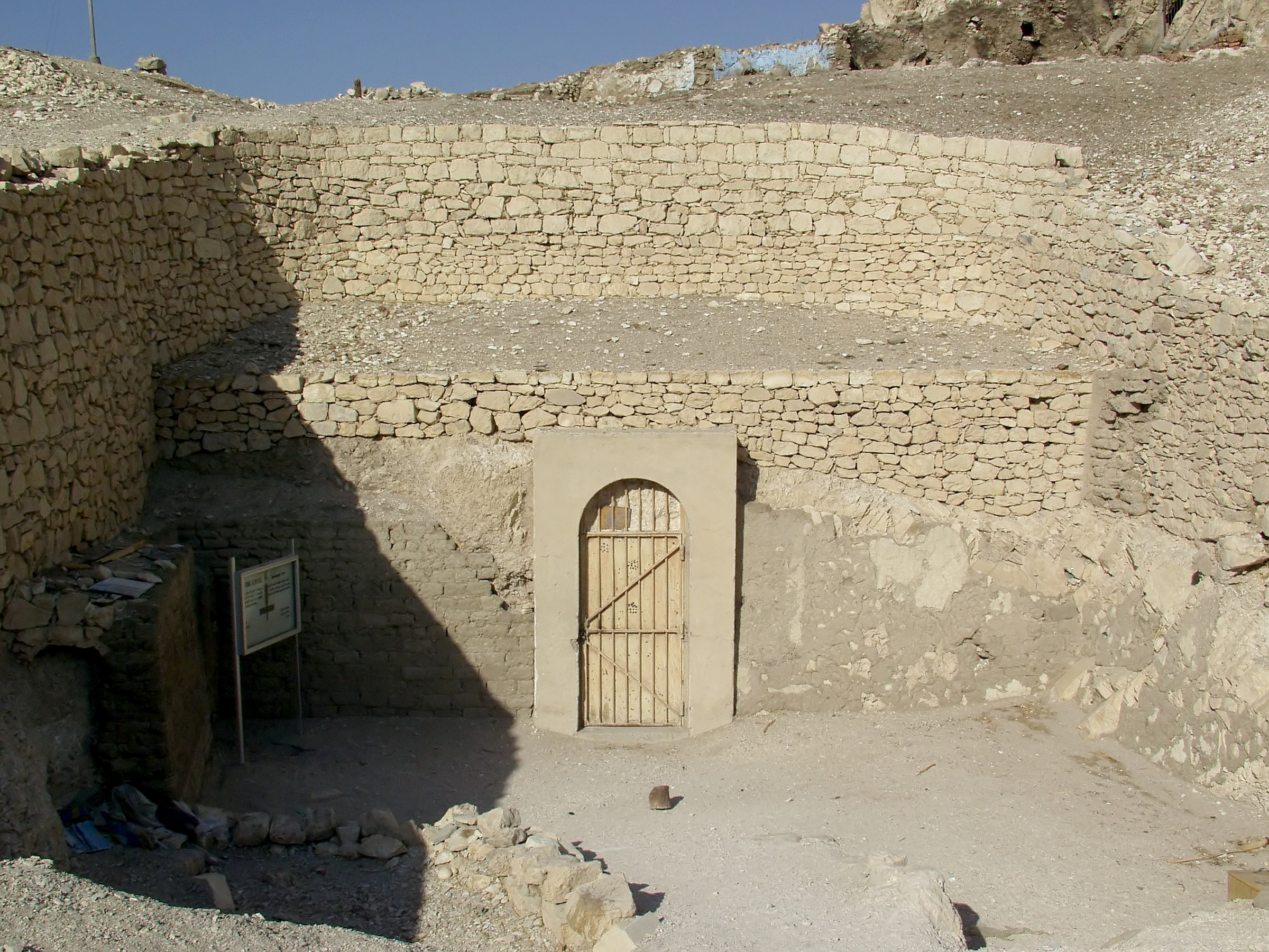 Entrance to the tomb of Menna (TT69), Valley of the Nobles, Sheikh ‘Adb el-Qurna, Westbank, Luxor, Egypt